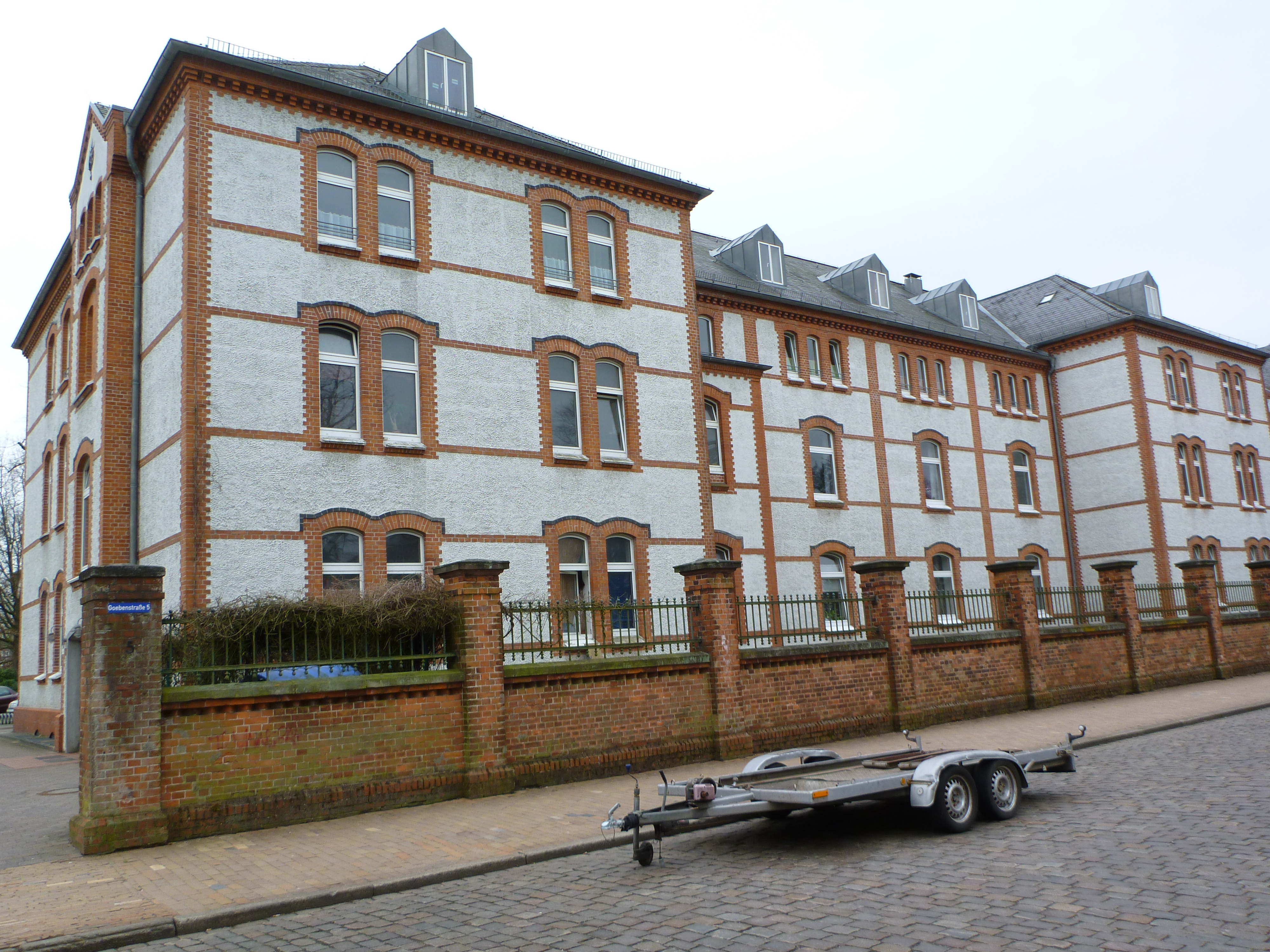 Goebenstraße 5-7, Cultural heritage monuments in Neumünster